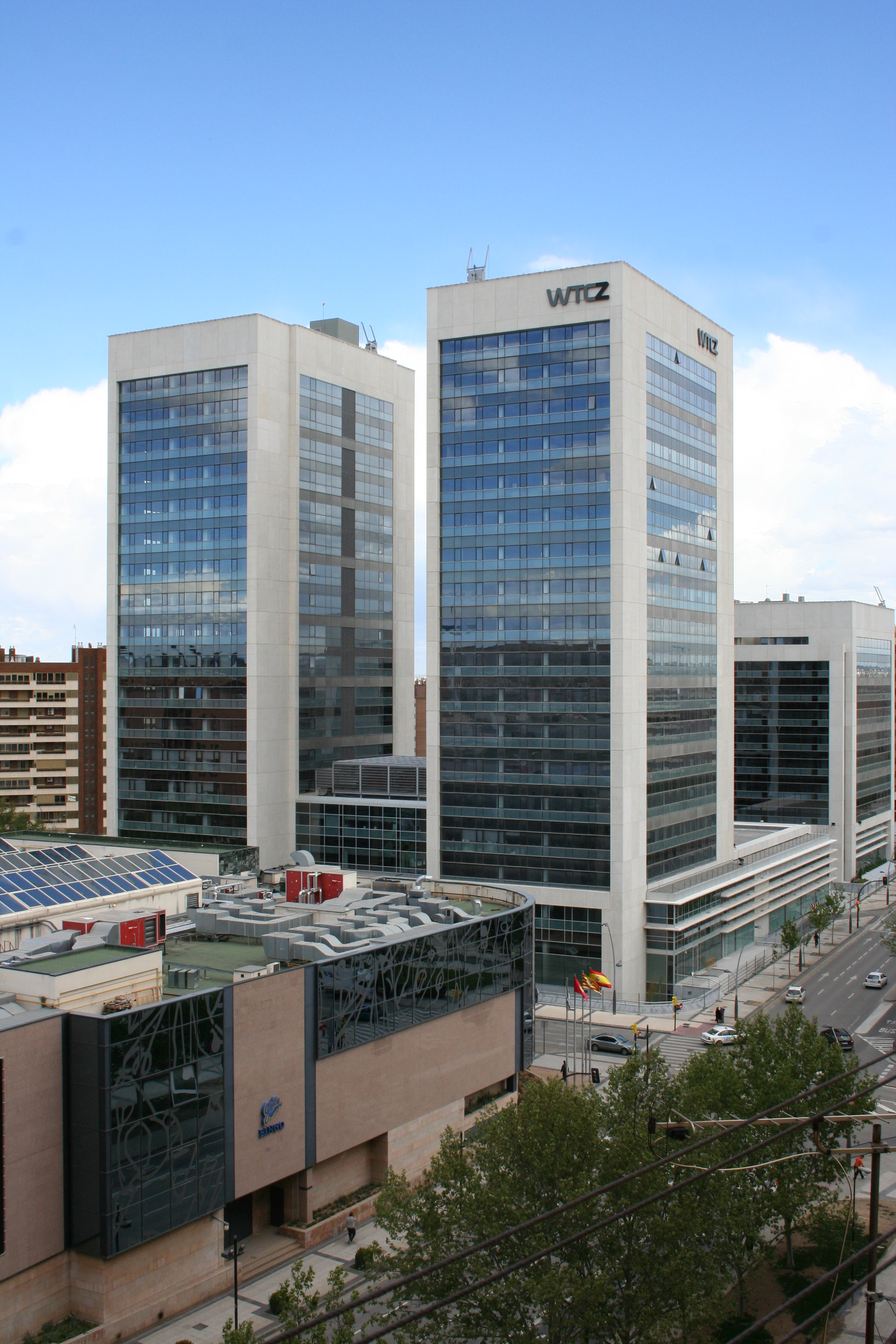 WTCZ, World Trade Center Zaragoza